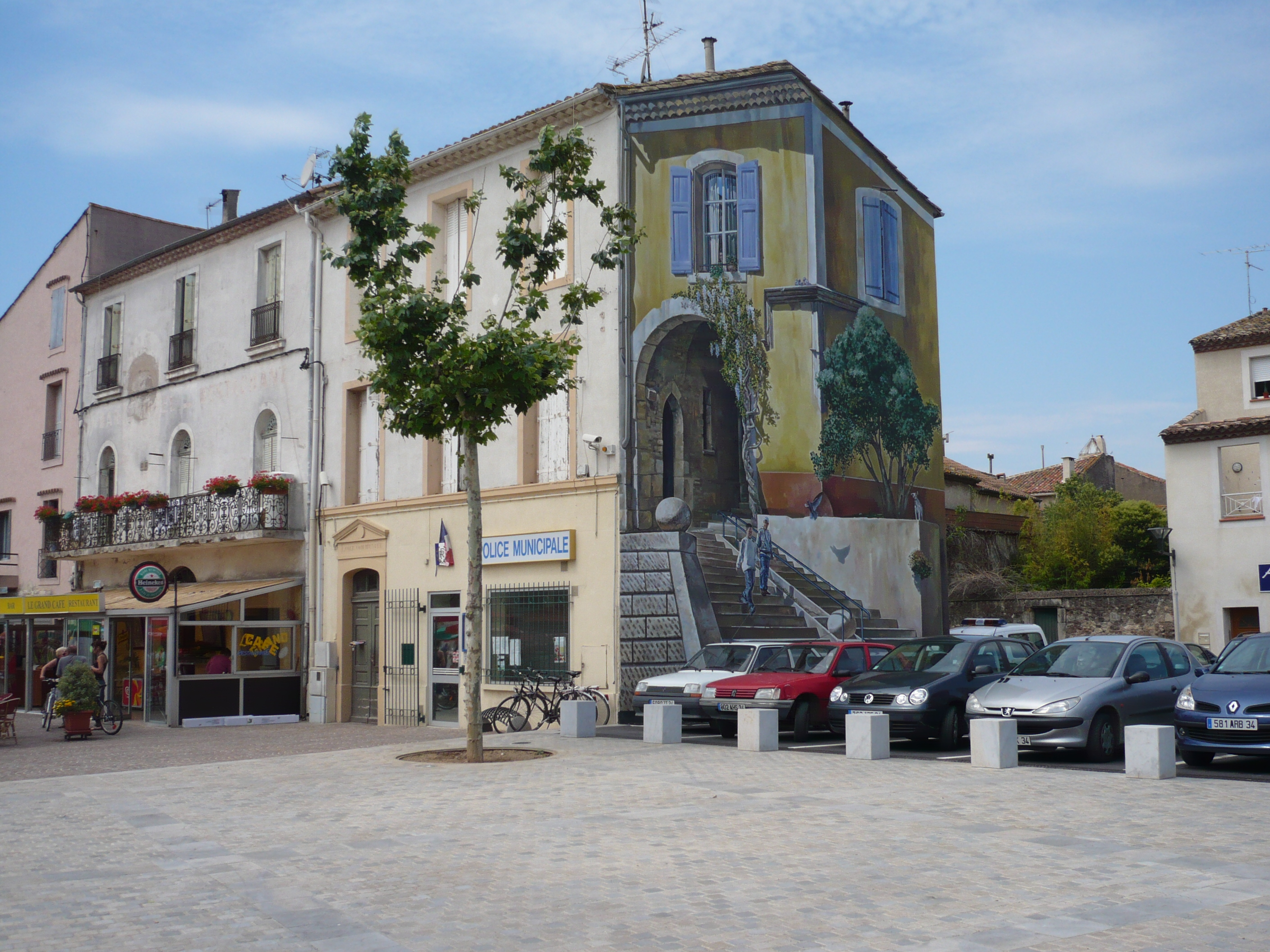 The main square in Villeneuve-le-beziers with distinct artwork